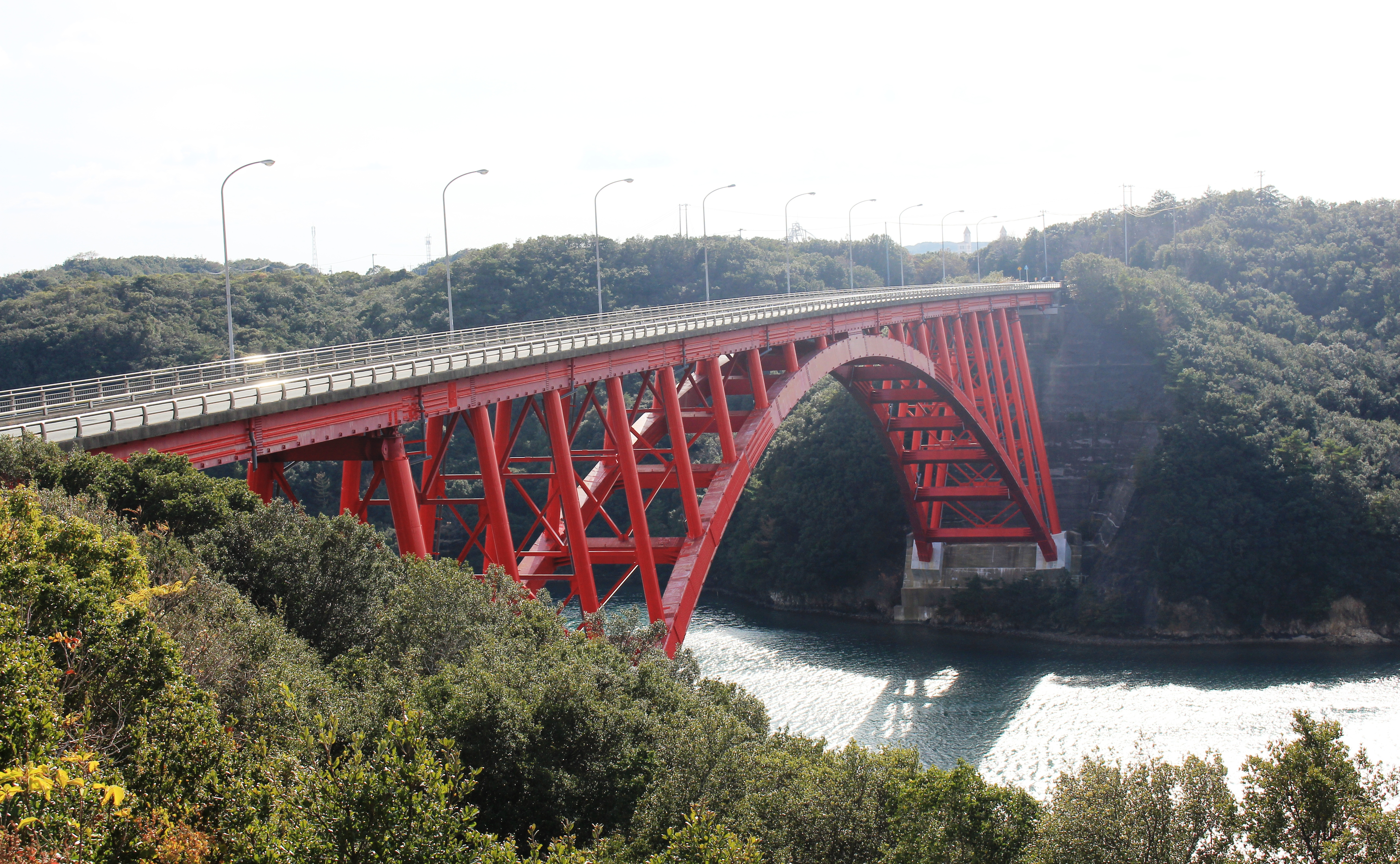 Matoya Bay Bridge (Matoyawan-ōhashi) on Matoya Bay, in Shima, Mie prefecture, Japan.